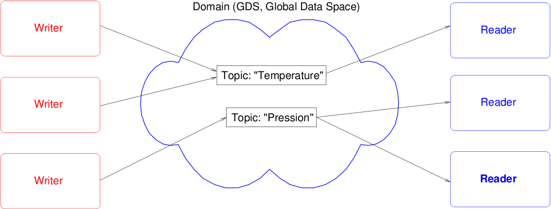 The Publish/Subscribe paradigm in DDS.